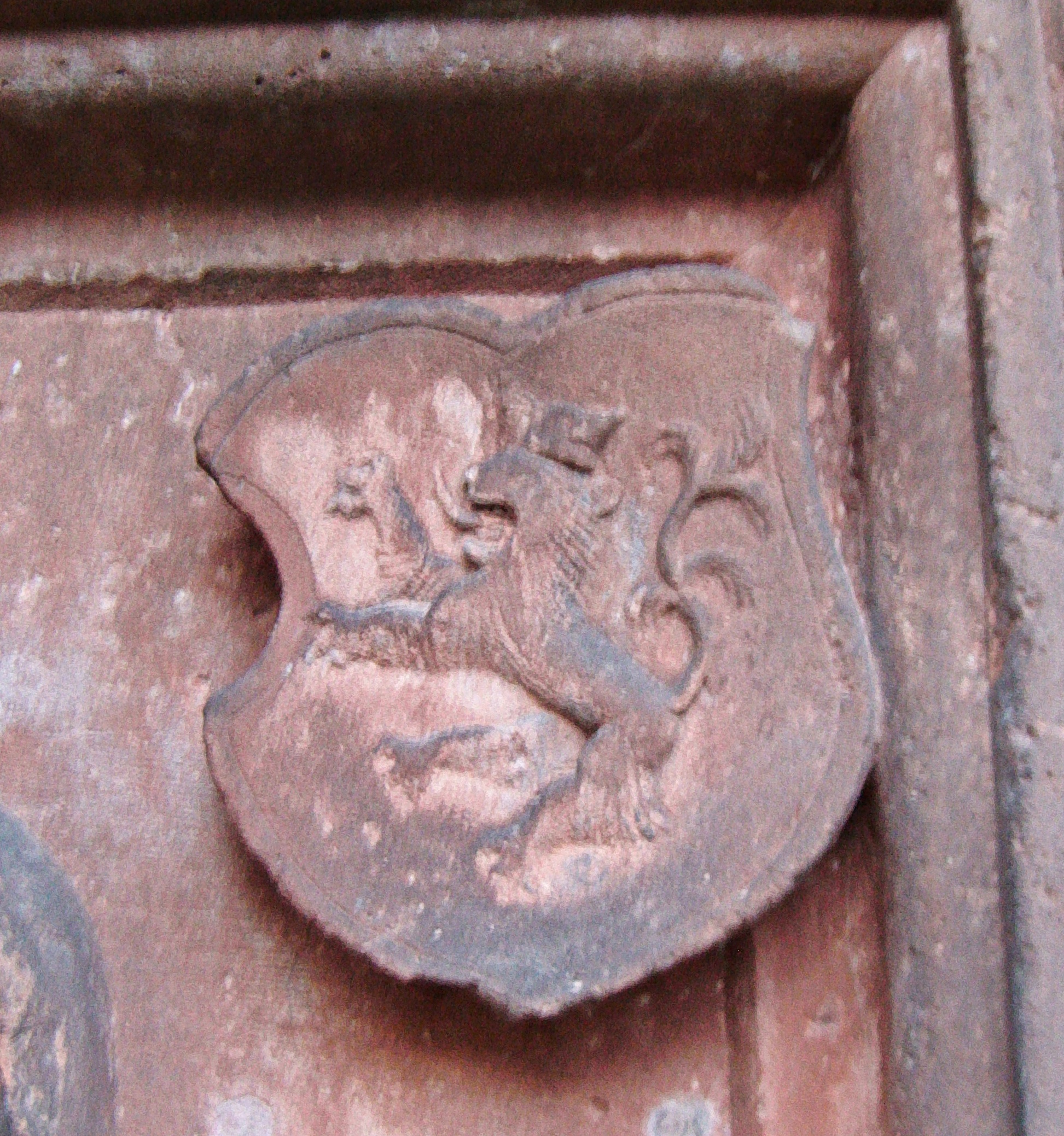 Wappen der Herren von Oberstein (Idar-Oberstein), vom Grabstein der Äbtissin Barbara von Heppenheim genannt vom Saal († 1567), Kloster Rosenthal, Pfalz